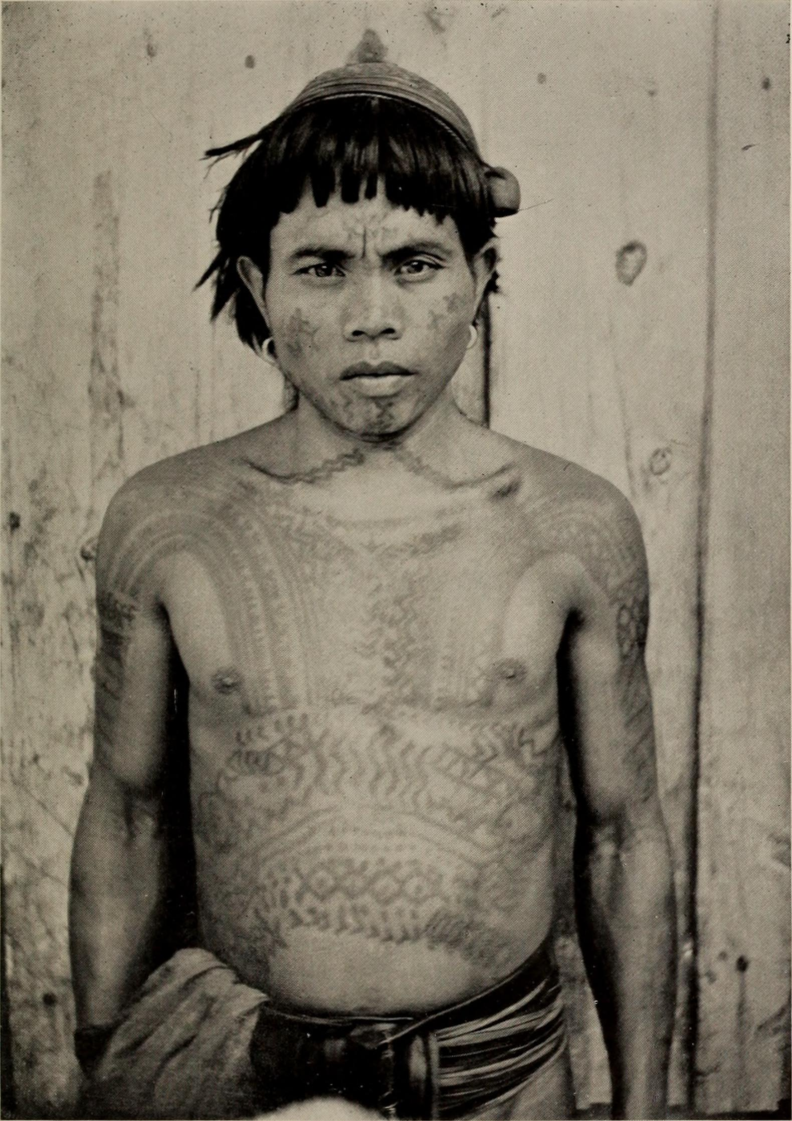 A Bontac Man Title: University of California publications in American archaeology and ethnology Year: 1903 (1900s) Authors: University of California (1868-1952) University of California (1868-1952) Publications in American archaeology and ethnology Subjects: Indians Indians of North America Publisher: Berkeley University of California Press Text Appearing Before Image: LEPANTO WOMEX PLATE 7 The Bontoc tattoo is exceedingly elaborate. Neither a man nor a womanmay be tattooed except when a successful headhunting expedition has returnedto the village or ward. (140) UNIV. CALIF. PUBL. AM. ARCH. &. ETHN. VOL. 15 (BARTON) PLATE 7 Text Appearing After Image: A BONTOC MAN PLATE 8 The saucy, undomesticated expression of the face is chaiaeteristic of theBontoc Igoiot. To describe with a single word the dispositions of the threeupper mountain tribes of northern Luzon, it could be said that the Kalinga isa rake, the Bontoc a dare-devil, and the Ifugao a mystic. (142) UNIV. CALIF. PUBL, AM. ARCH, & ETHN, VOL. 15 (BARTON) PLATE